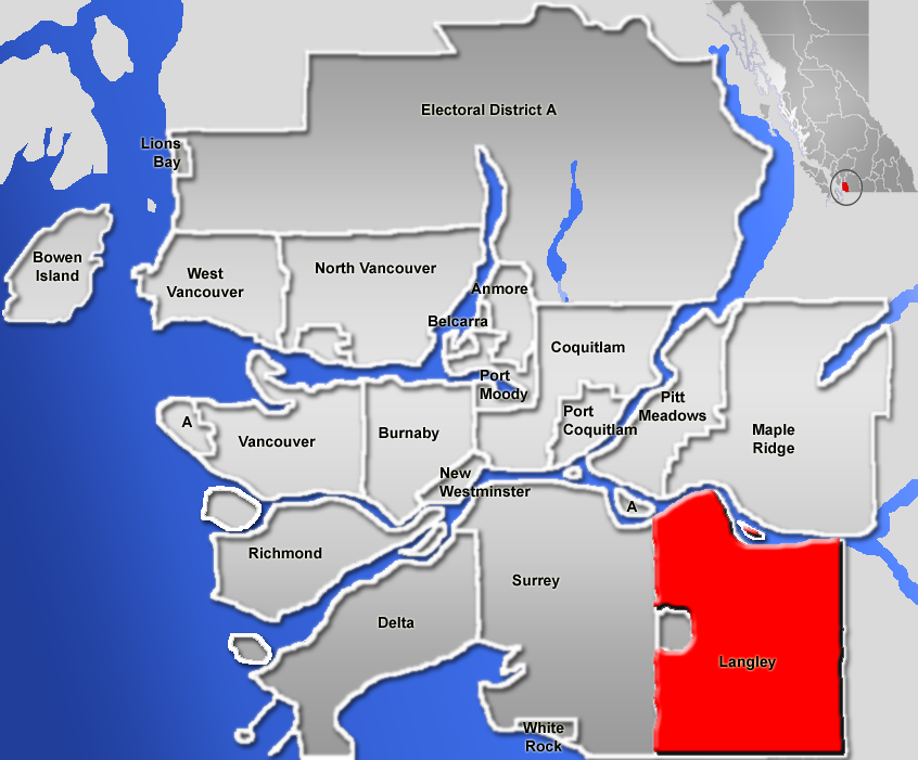 Location of Langley (district municipality), Greater Vancouver Area, British Columbia